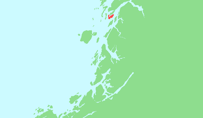 Locator map of Rødøya, Nordland, Norway